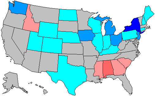 Summary of party change of U.S. house seats in the 1964 House election. Stripes indicate a tie between the gains of two or more parties. Legend: 6+ Democratic seat pickup 3-5 Democratic seat pickup 1-2 Democratic seat pickup 1-2 Republican seat pickup 3-5 Republican seat pickup 6+ Republican seat pickup Note: years ending in 2 may have inconsistent results due to redistricting.